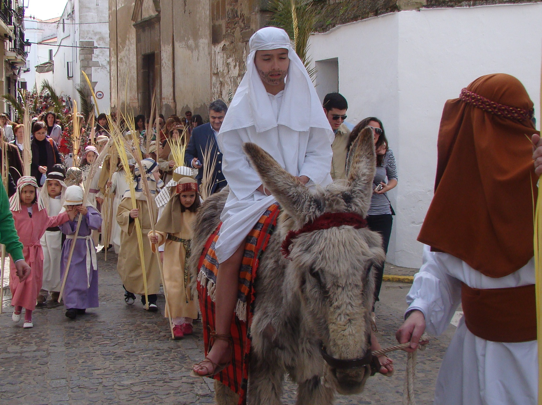 borrica